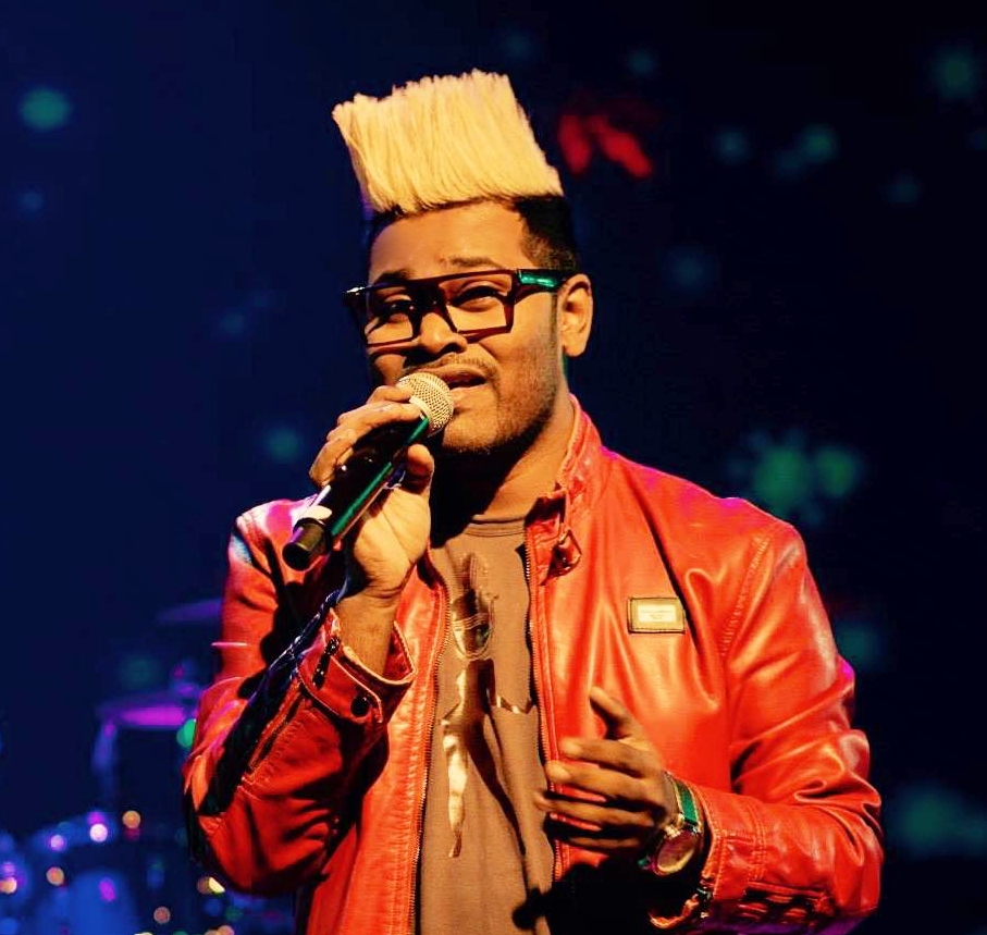 Performance image at a concert